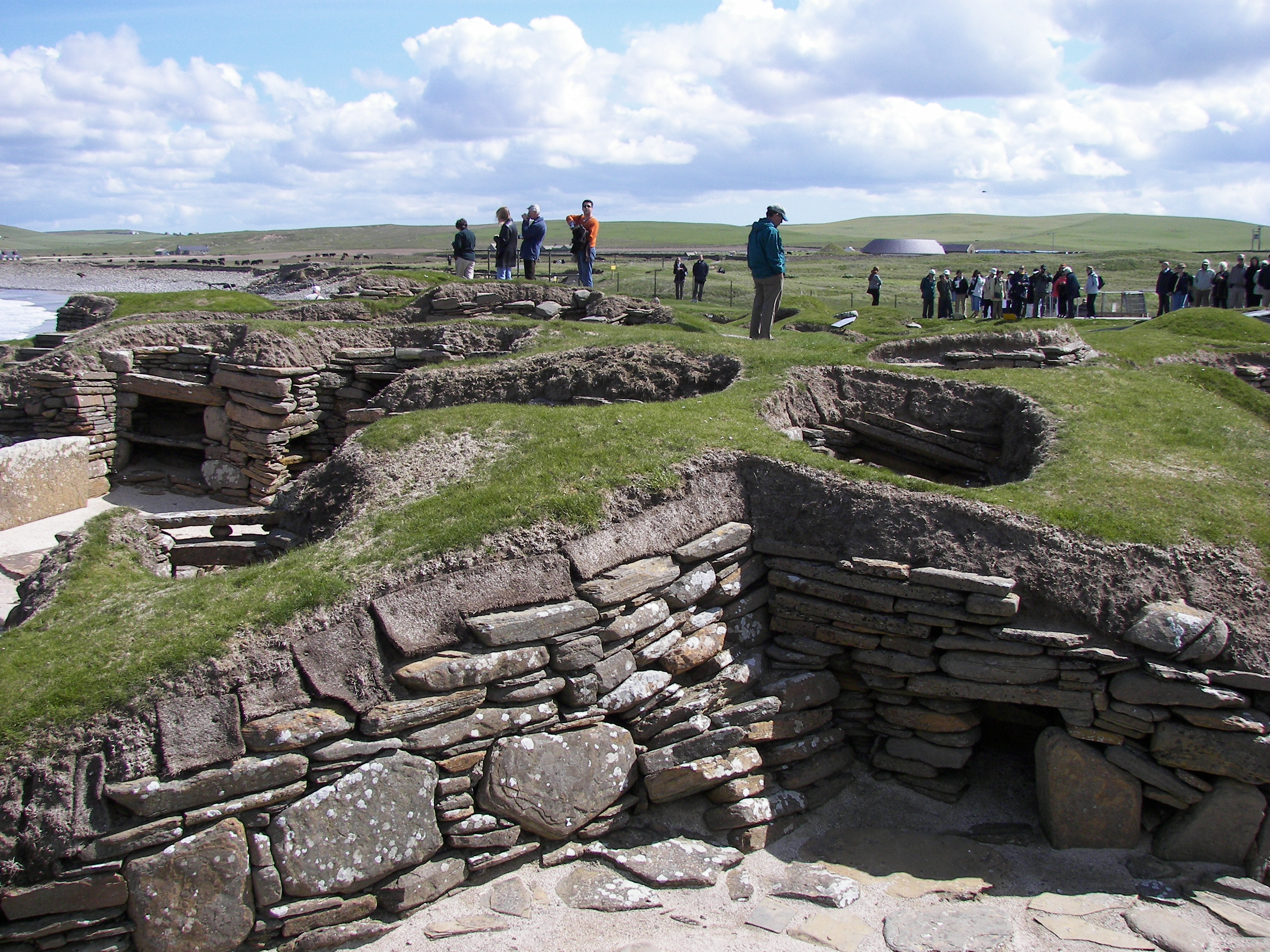 Skara Brae outside house 8 (to the left).